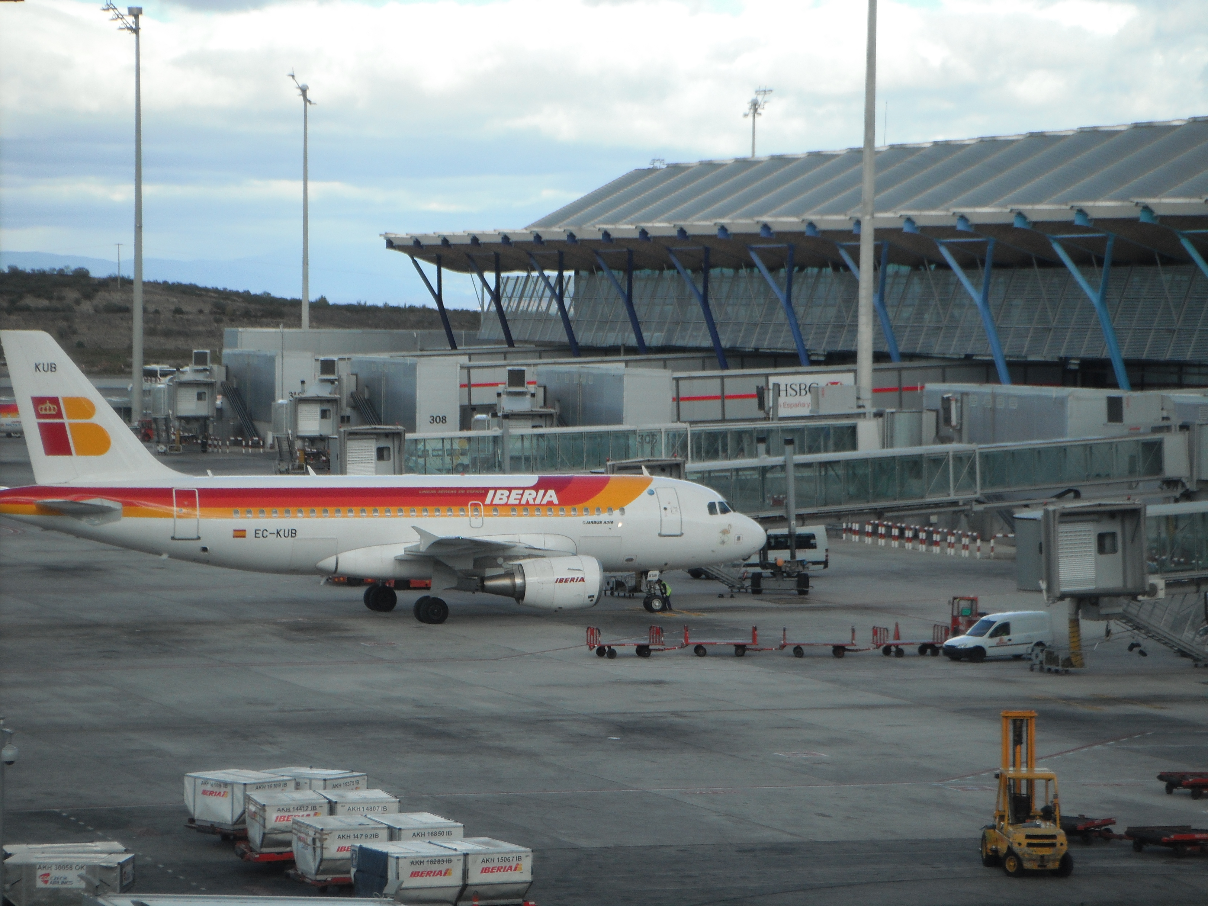 Iberia's A319 park at T4 at Madrid - Barajas Airport